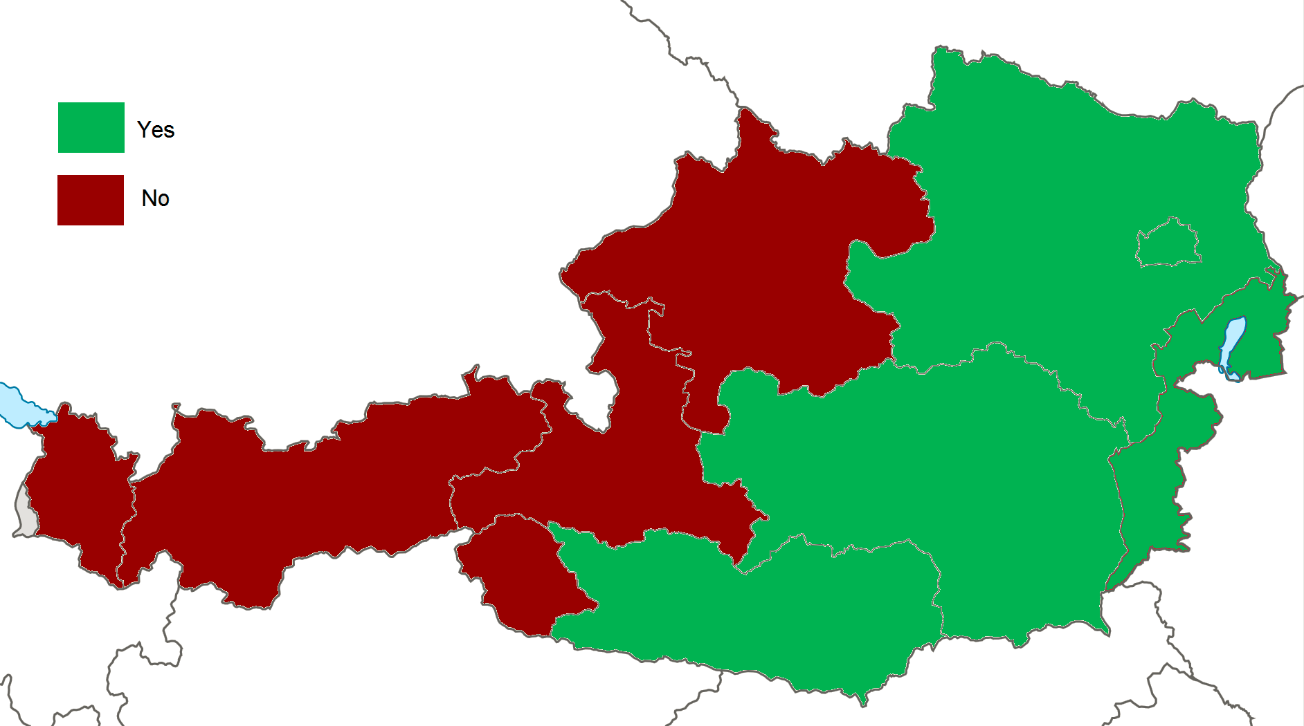 Austrian nuclear power referendum results by state, 1978